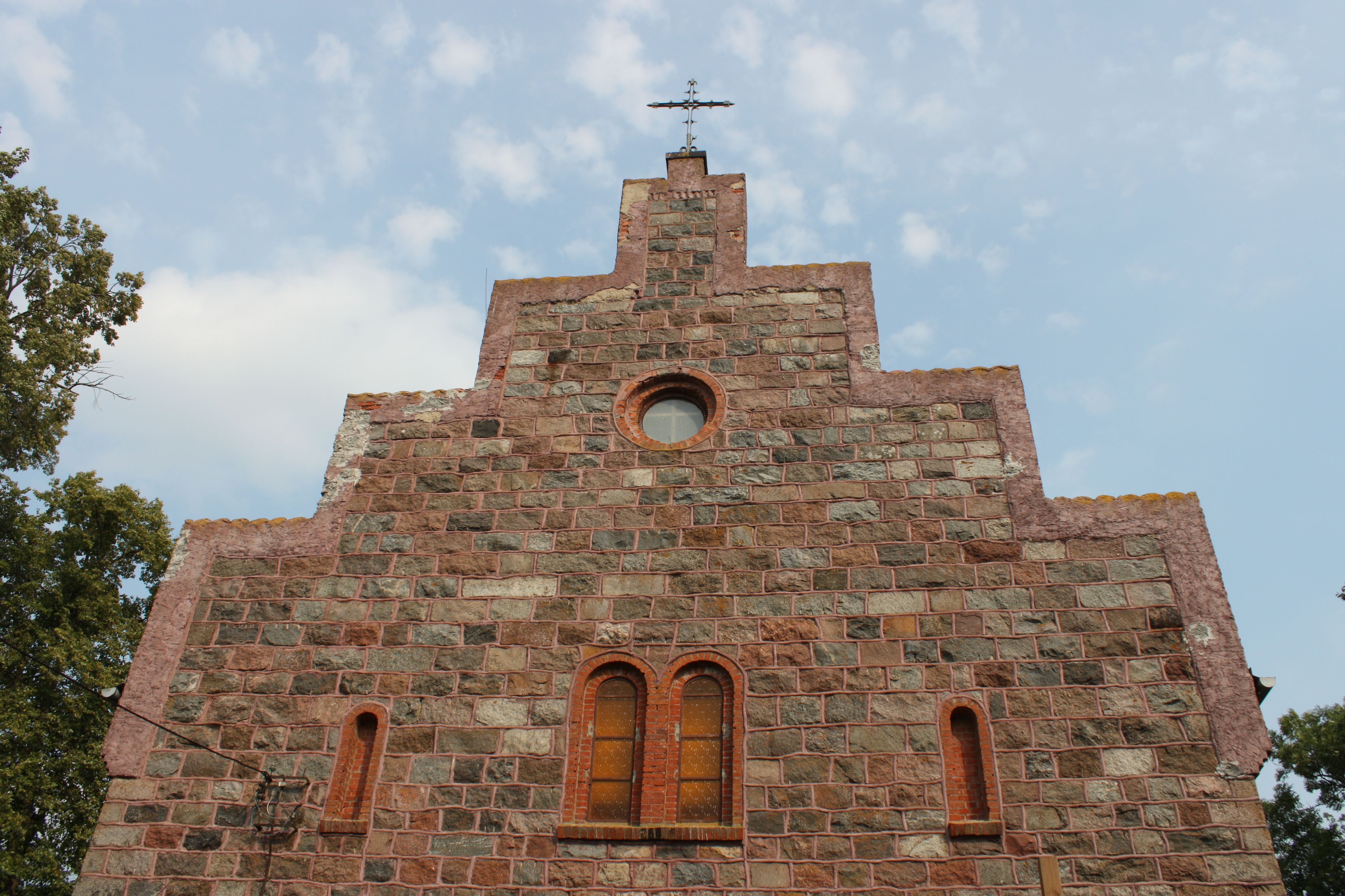 Saint John the Baptist church in Targowo.